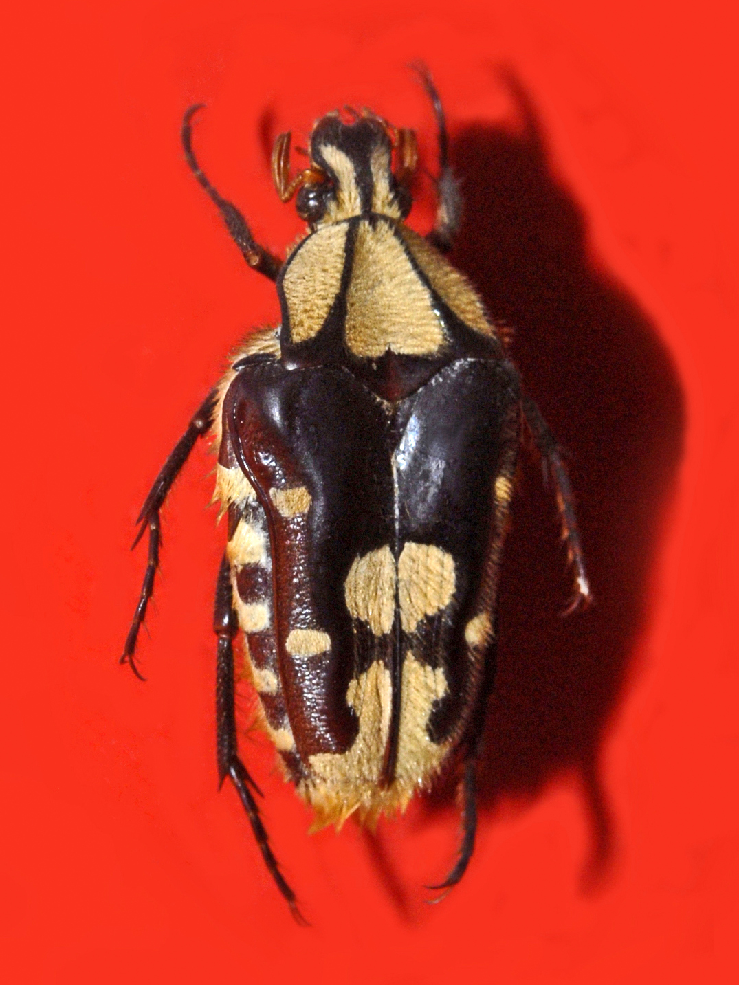 Museum specimen of Coilodera penicillata. On display at the Museo Civico di Storia Naturale di Milano